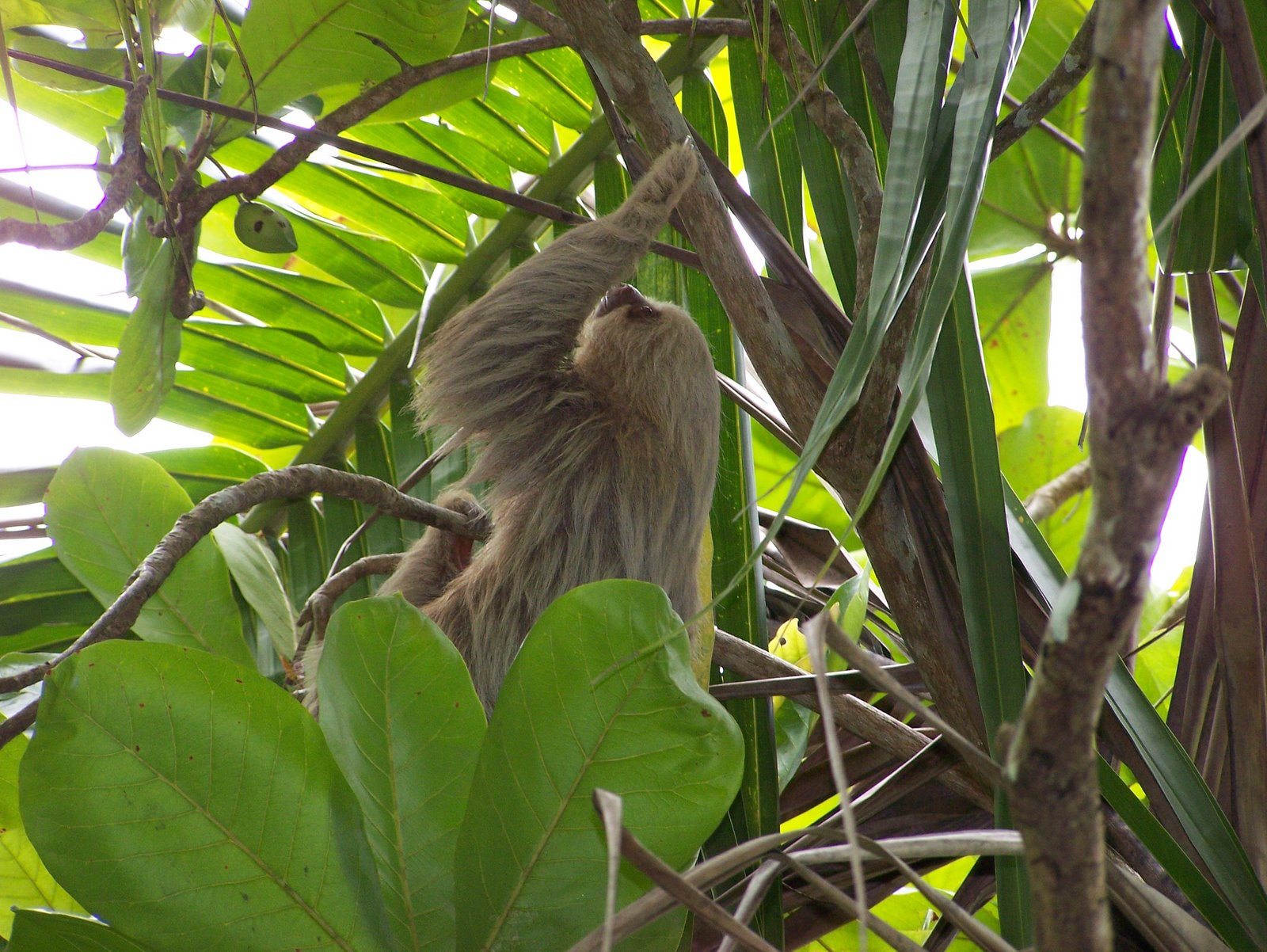 Hoffmann's two-toed sloth in Manual Antonio, Costa Rica